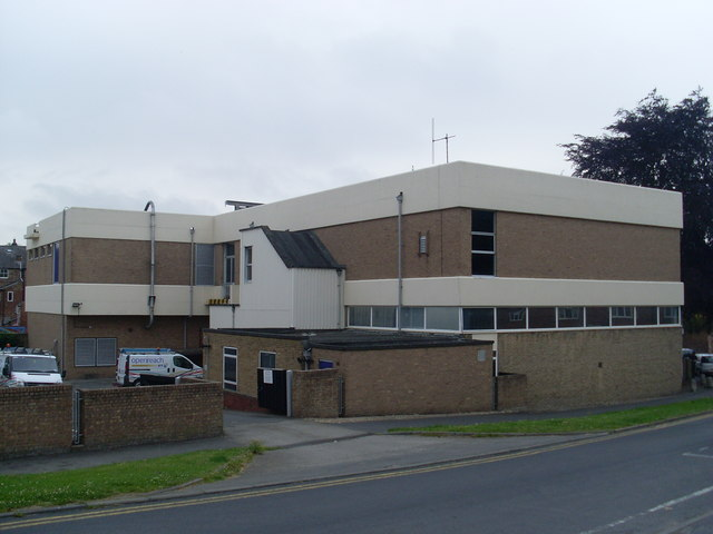 Malton Telephone Exchange Situated in Greengate, this modern TE replaced the former manual TE in the mid-1960s. Its postcode is YO17 7EN.